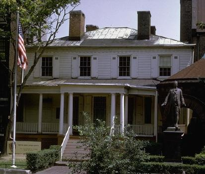 Hamilton Grange National Memorial, located at 287 Convent Avenue in New York City (approx lat/long: 40°49′20″N 73°56′52″W / 40.82222°N 73.94778°W).